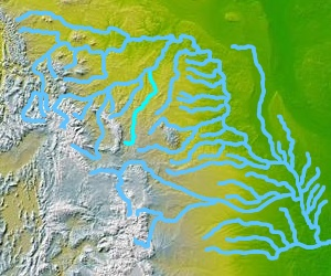 Map of the Powder River — in Montana. Credits © 2004 Matthew Trump